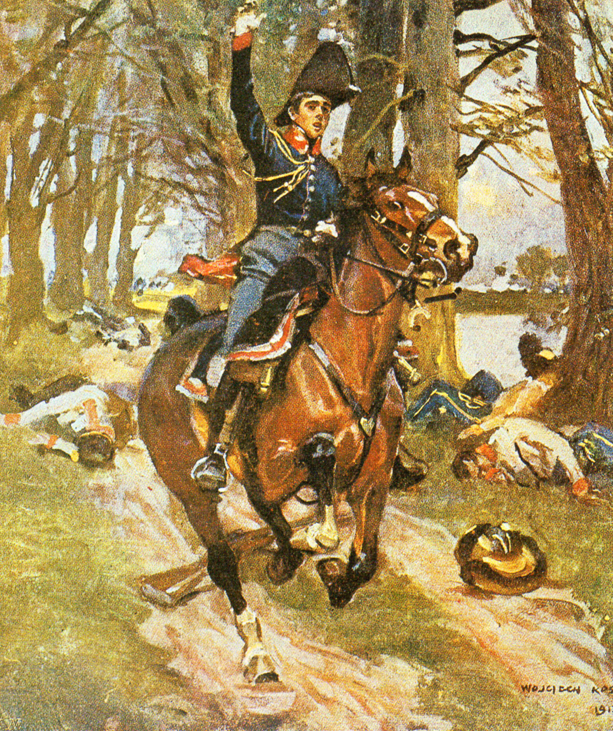 Battle of Raszyn 1809, Victory!